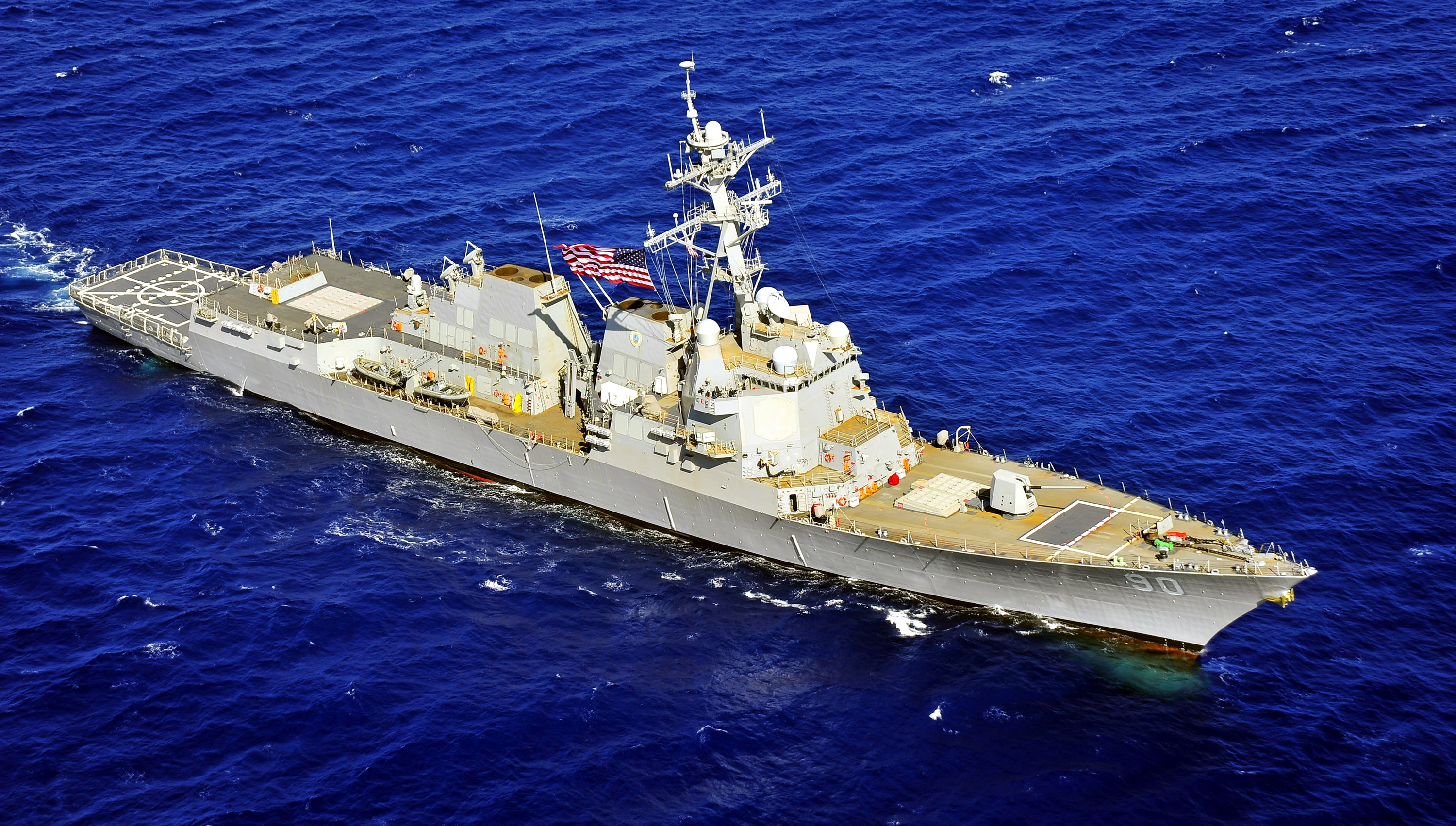 The U.S. Navy Arleigh Burke-class guided-missile destroyer USS Chafee (DDG-90) flies the U.S. Navy battle ensign while performing maneuvers off the coast of Hawaii (USA).